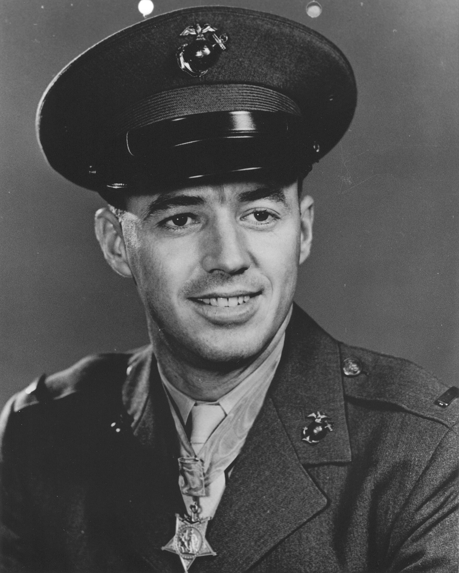 George H. O'Brien, Jr., USMC, Medal of Honor recipient, Korean War; photo from official Marine Corps biography at